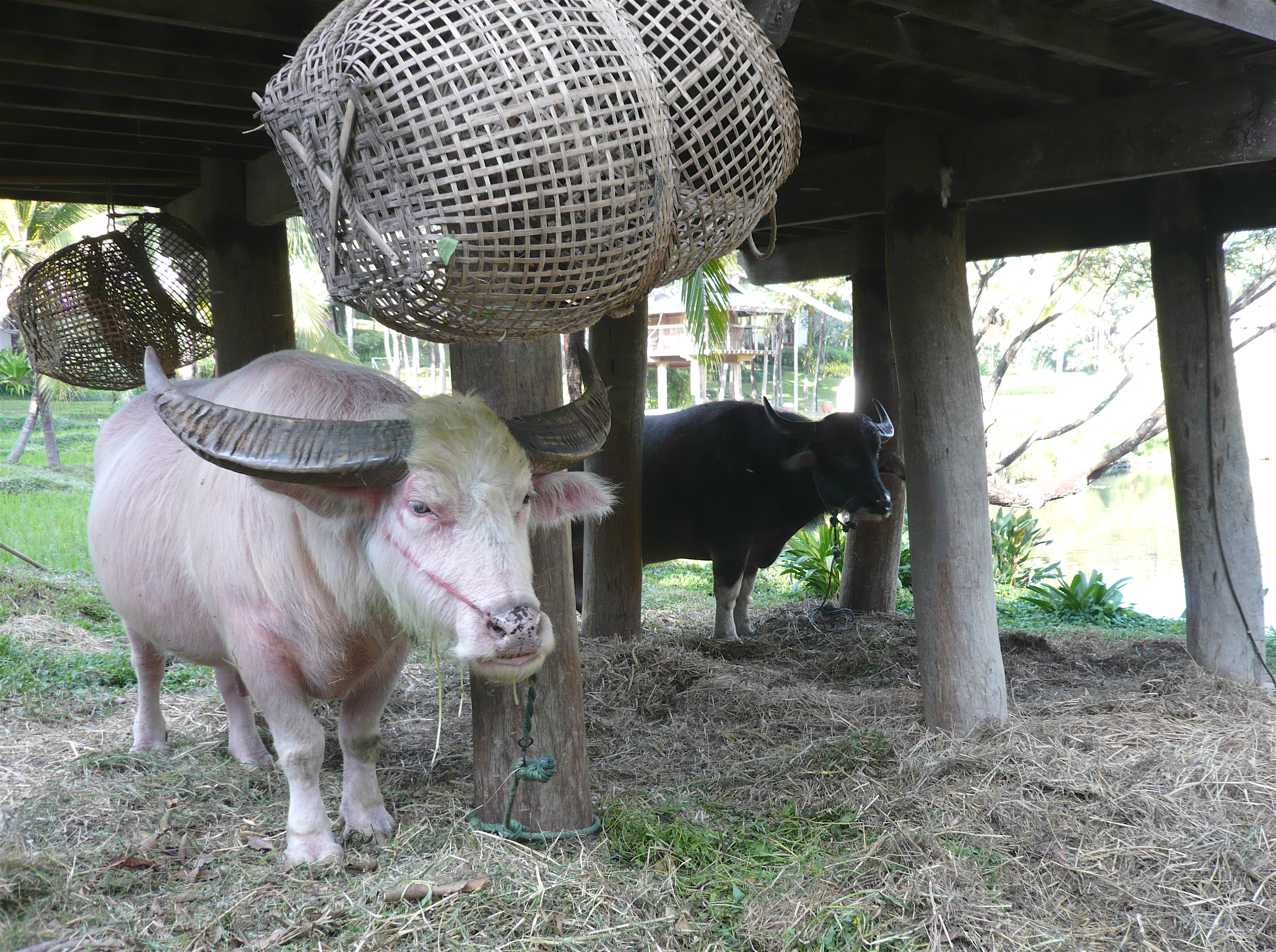 Water buffalo, with the animal on the left an albino, in Chiang Mai, Thailand